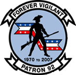 Insignia of the United States Navy Patrol Squadron 92 (VP-92), approved on 9 July 1979.